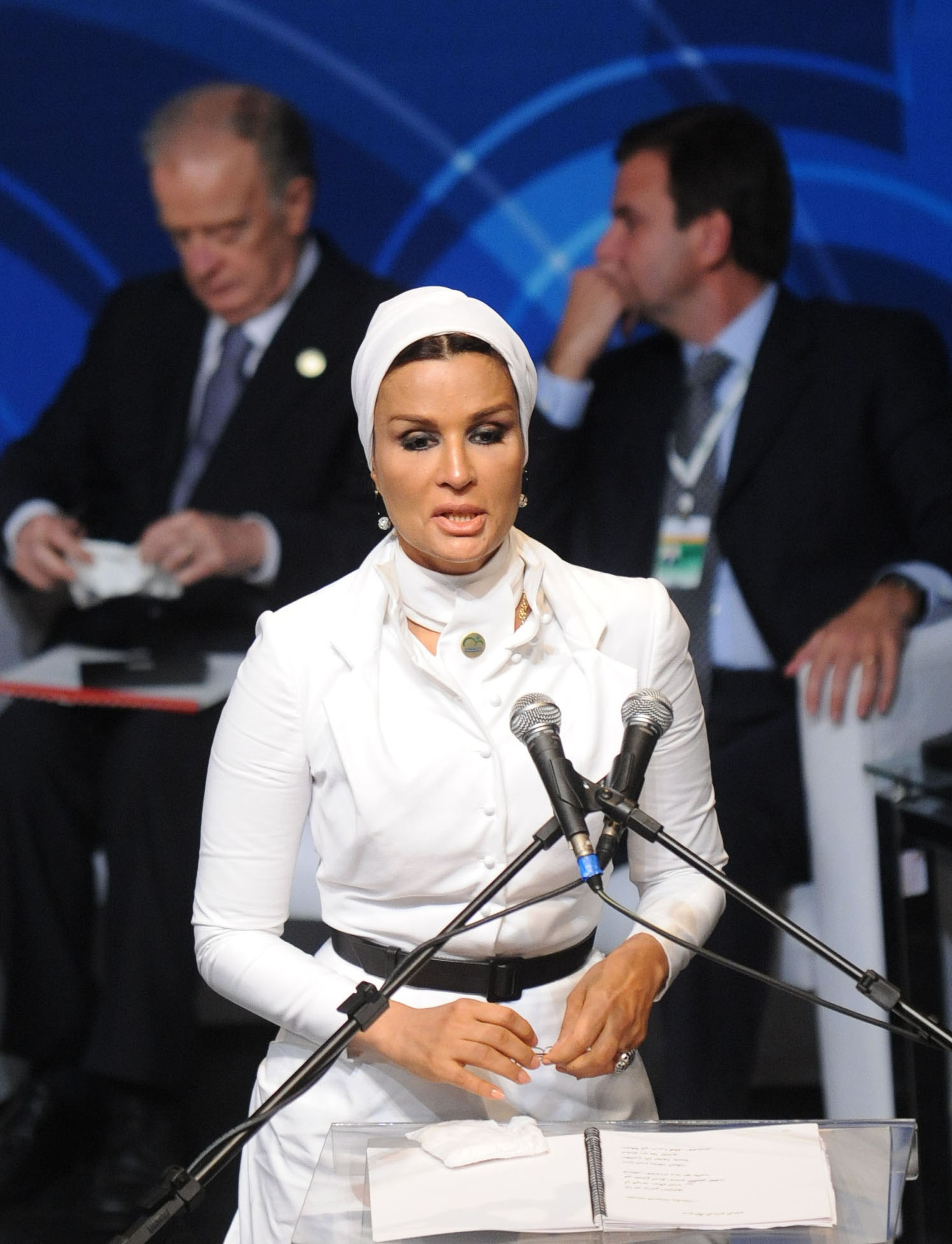 Third Global Forum of the UN Alliance of Civilizations in Rio de Janeiro, Brazil.